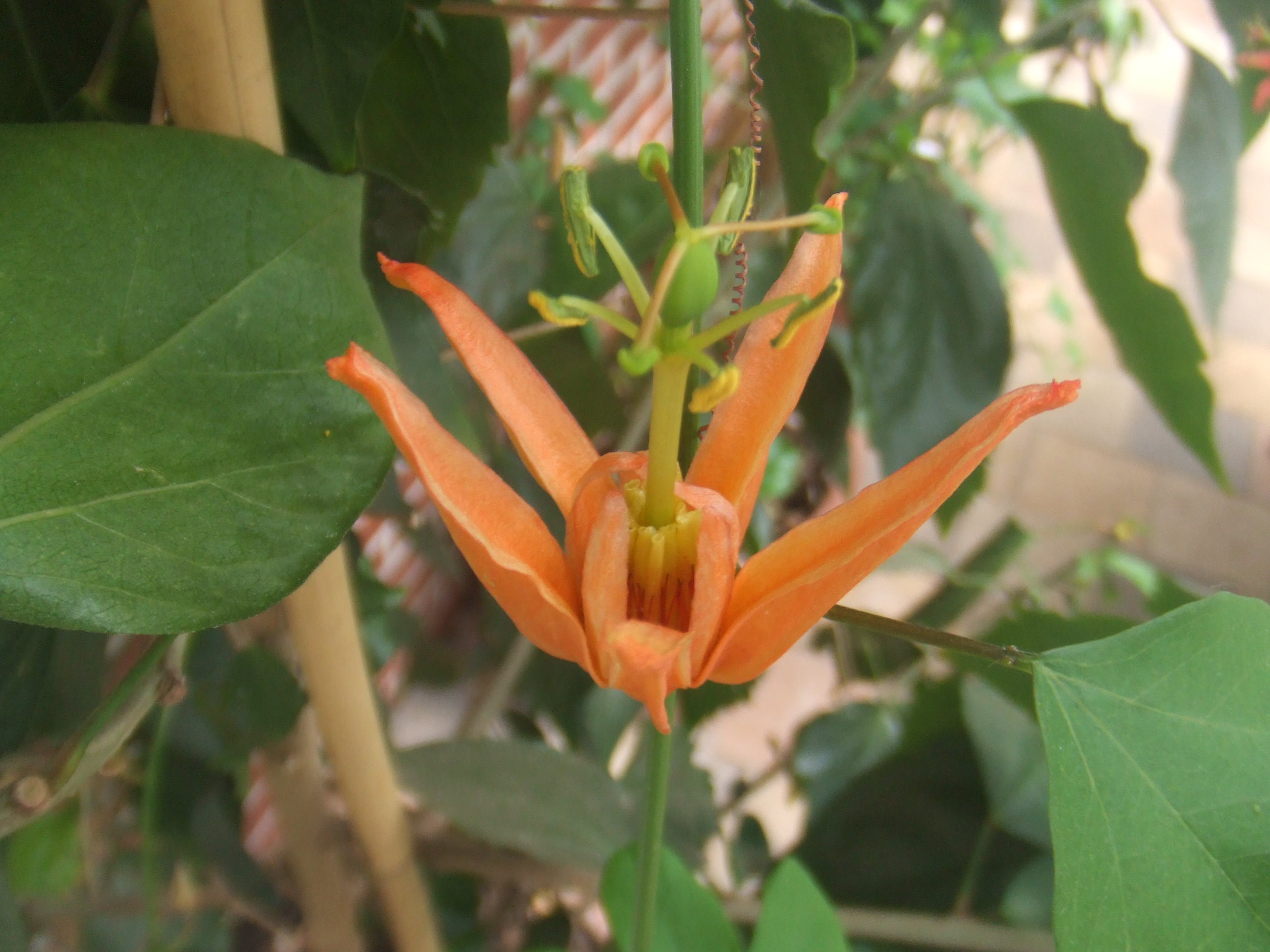 Passiflora aurantia, picture taken at Passiflorahoeve in Harskamp, The Netherlands